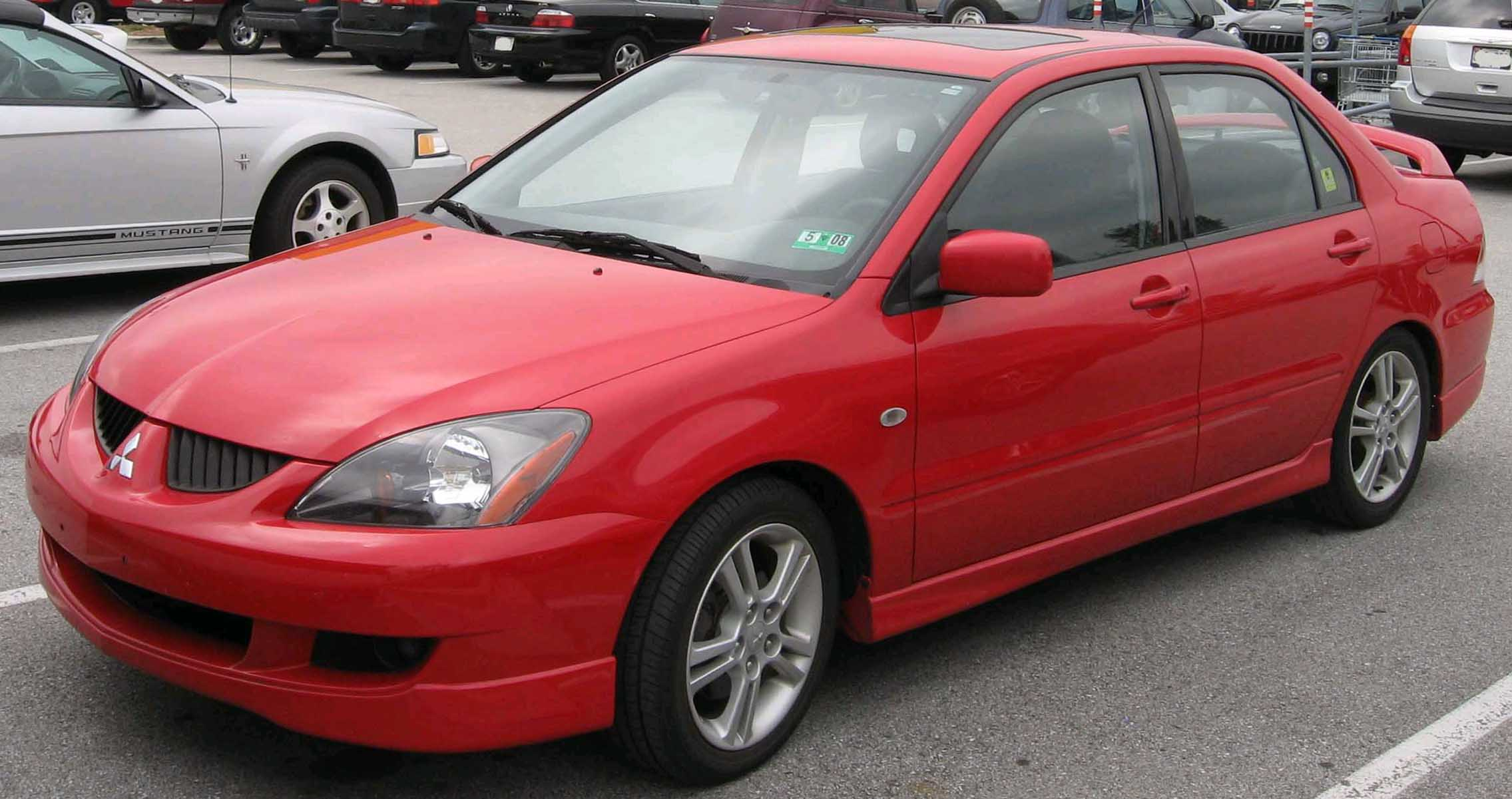 2004-2005 Mitsubishi Lancer photographed in College Park, Maryland, USA.